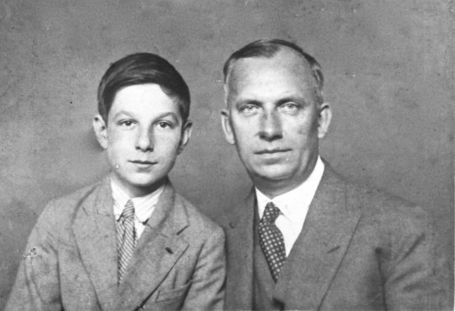 Left: Algirdas Savickis (10 September 1917 in Copenhagen – 1 October 1943) was the eldest son of Jurgis Savickis, a Lithuanian diplomat and writer, and Ida Trakiner-Savickienė, a MD whose family was Jewish and originally from Saint Petersburg. He was shot in the ghetto of Kaunas (Kowno/Kaunen). Right: His father, the diplomat and author Jurgis Savickis (1890–1952).